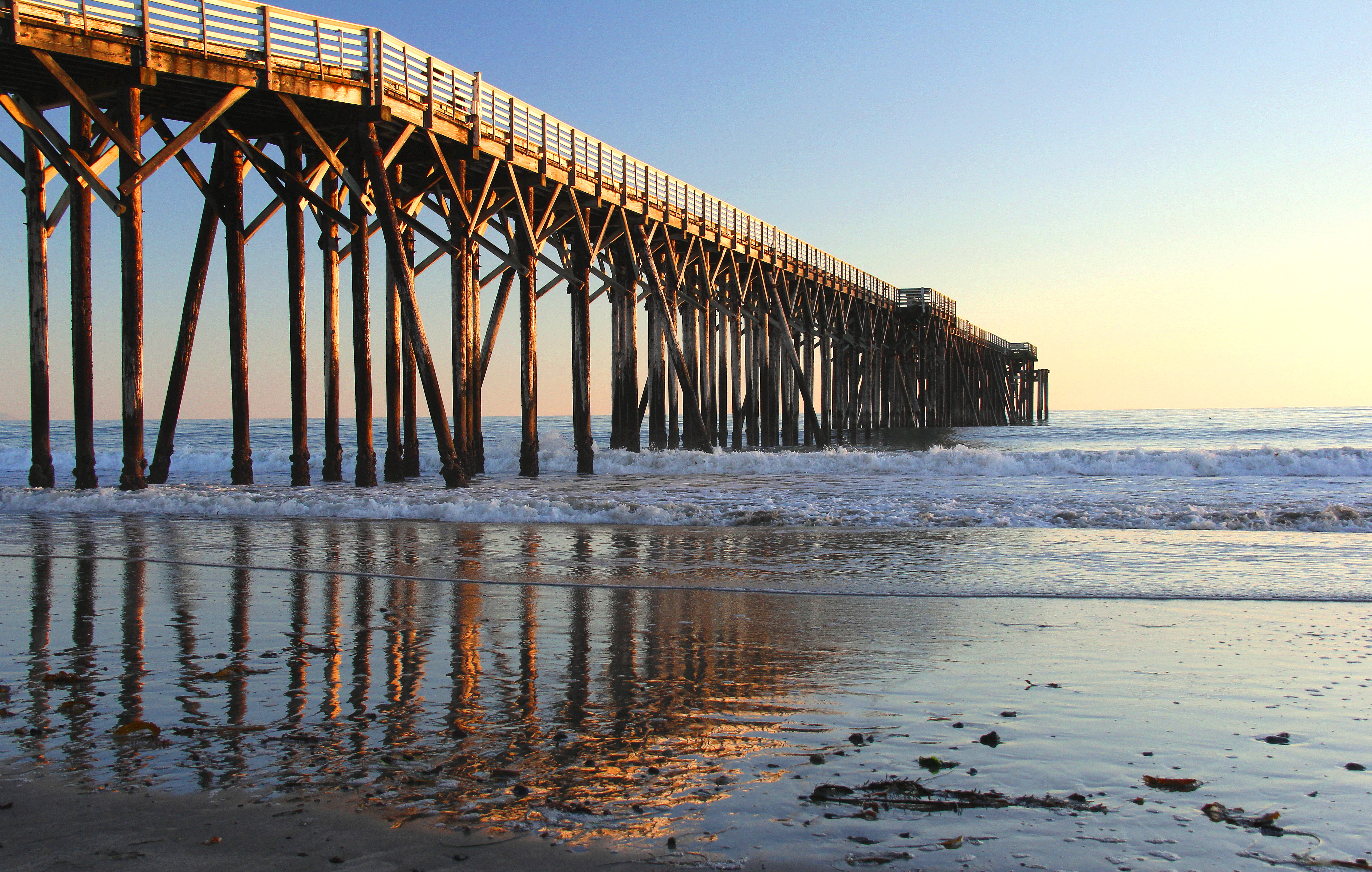 Pier, W.R. Hearst State Beach, San Simeon, Calif.